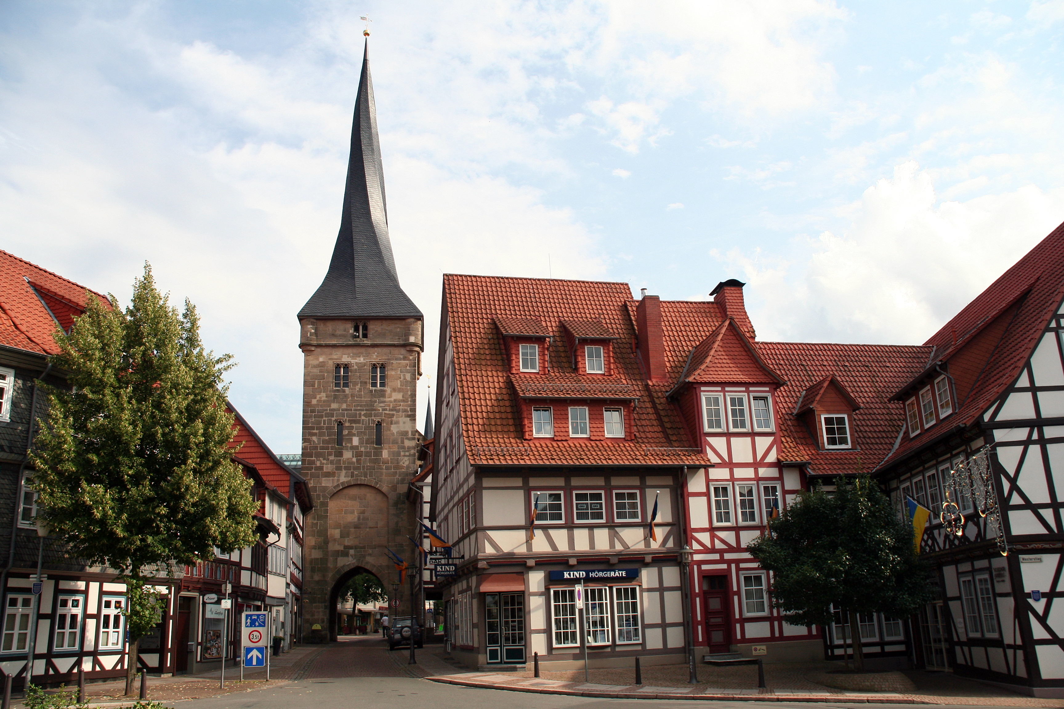 Westerturm in Duderstadt